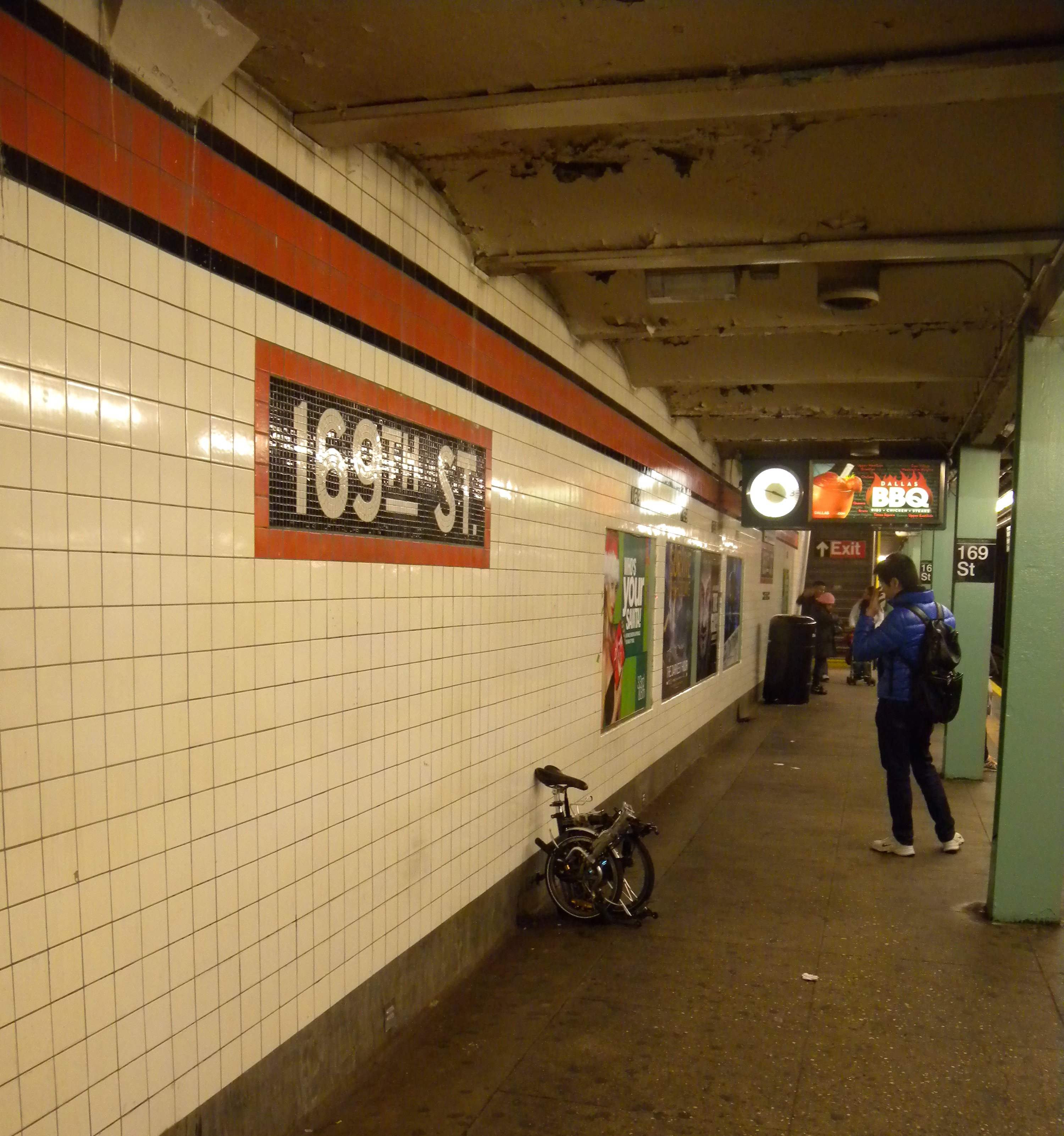 Looking northeast on westbound platform.